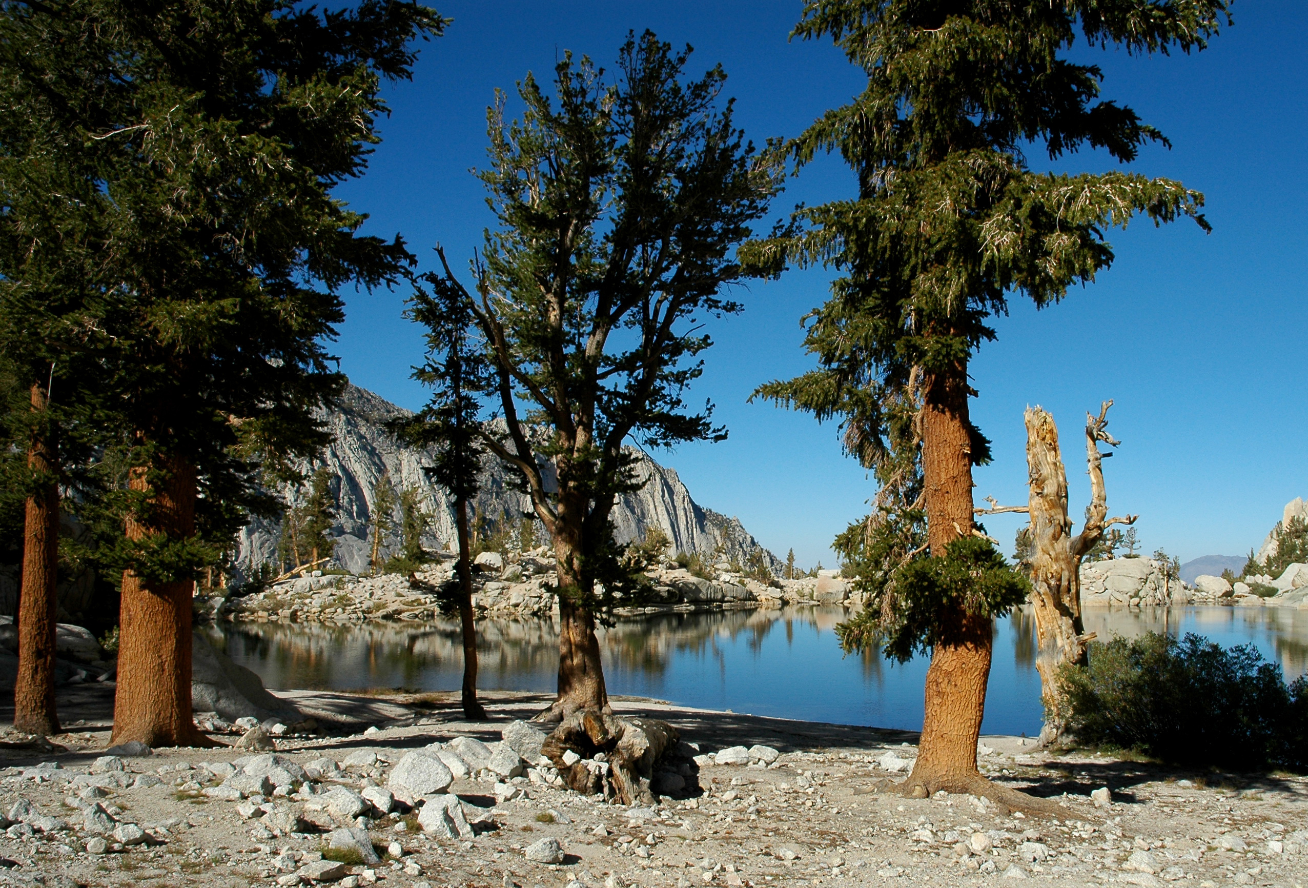 Pinus albicaulis (center) and Pinus balfouriana (left & right). Lone Pine Lake, Sierra Nevada east slope, California.